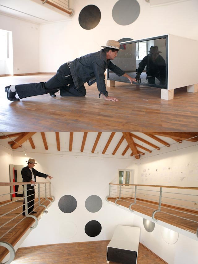 Orlando Mohorovic foto